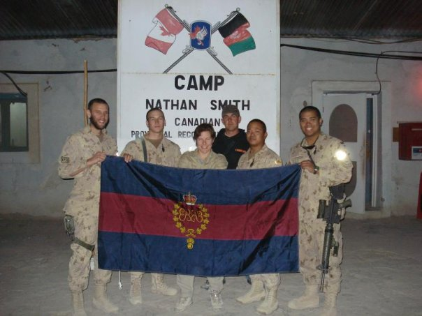 Members of the Canadian Grenadier Guards pose with their regiment's flag in Camp Nathan Smith, Kandahar City, Afghanistan.